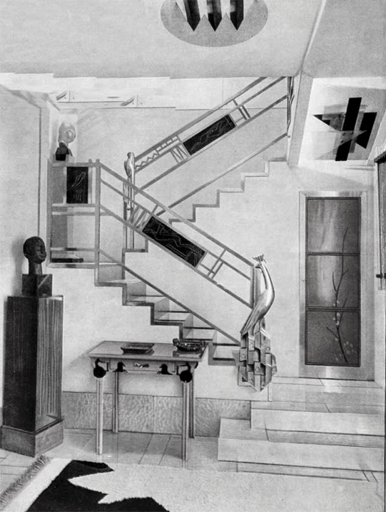 Jacques Doucet's hôtel particulier staircase, 33 rue Saint-James, Neuilly-sur-Seine, 1929 photograph by Pierre Legrain. Staircase design by Joseph Csaky